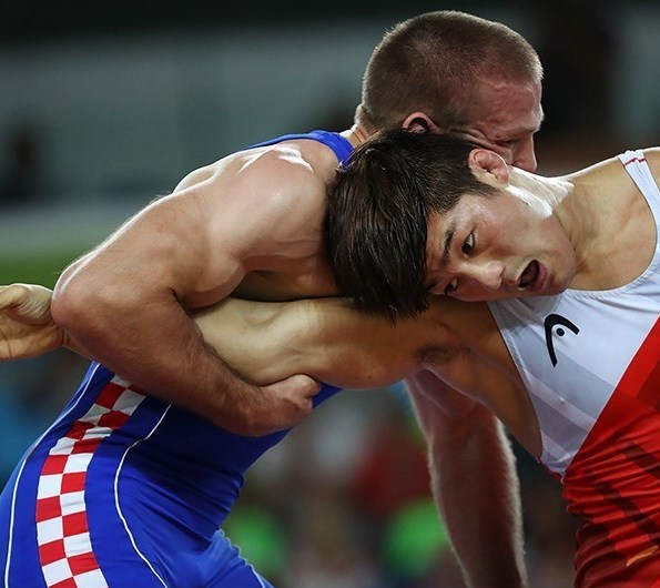 Rio 2016; Greco-Roman Wrestling 75 kg